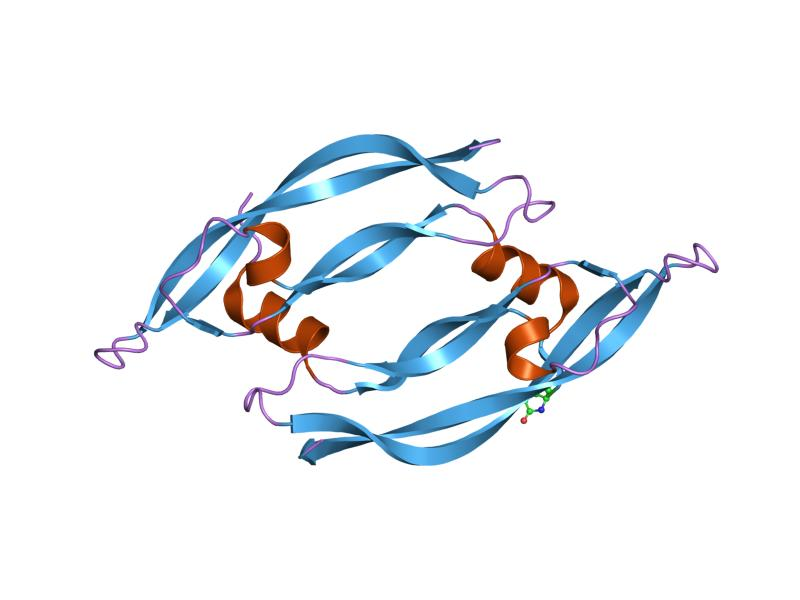 Cartoon representation of the molecular structure of protein registered with 1wq9 code.